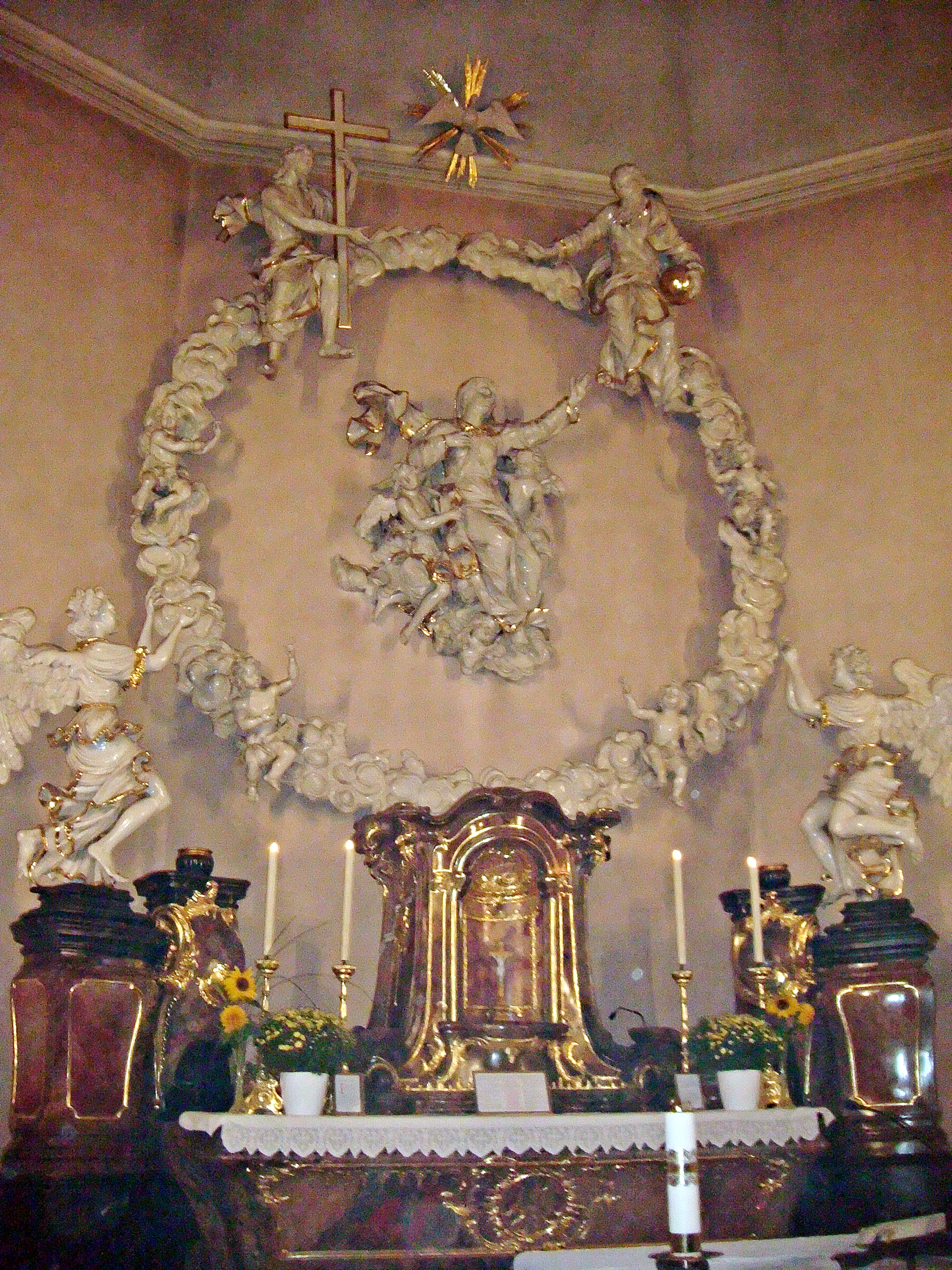 Rokoko-Hochaltar kath. Teil der Simultankirche Worms-Pfeddersheim, aus dem Kloster Maria Münster in Worms stammend .